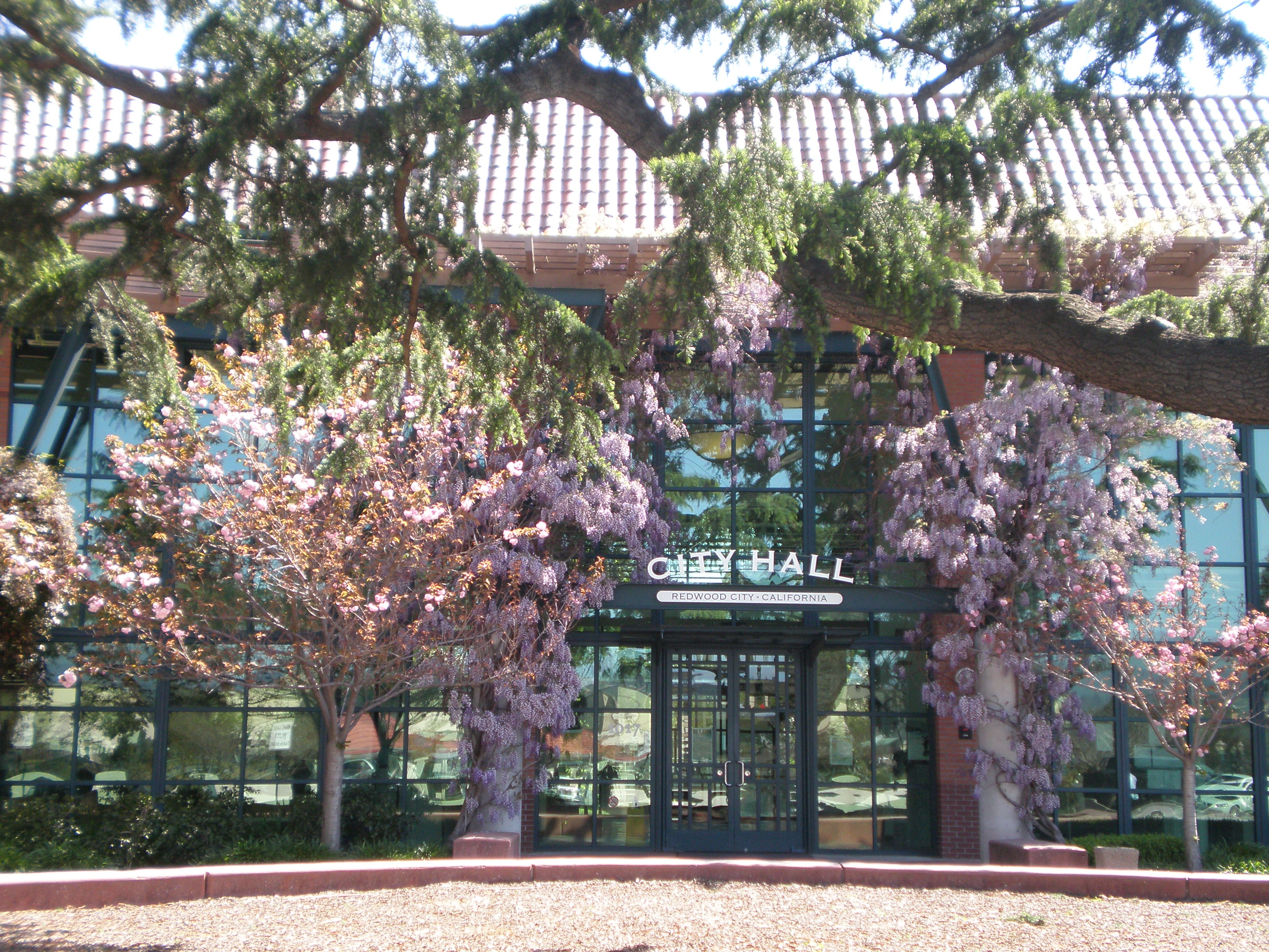 The entrance to Redwood City City Hall.